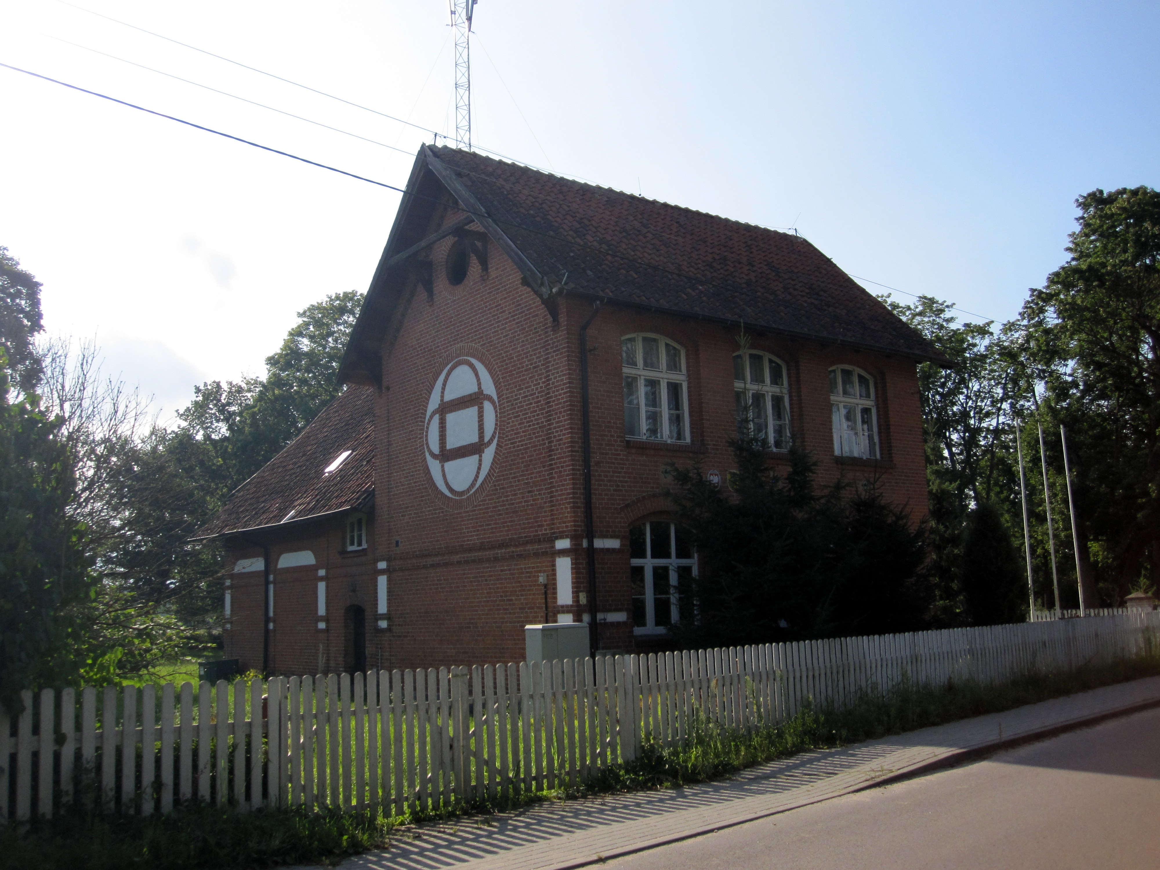 School in Jerutki